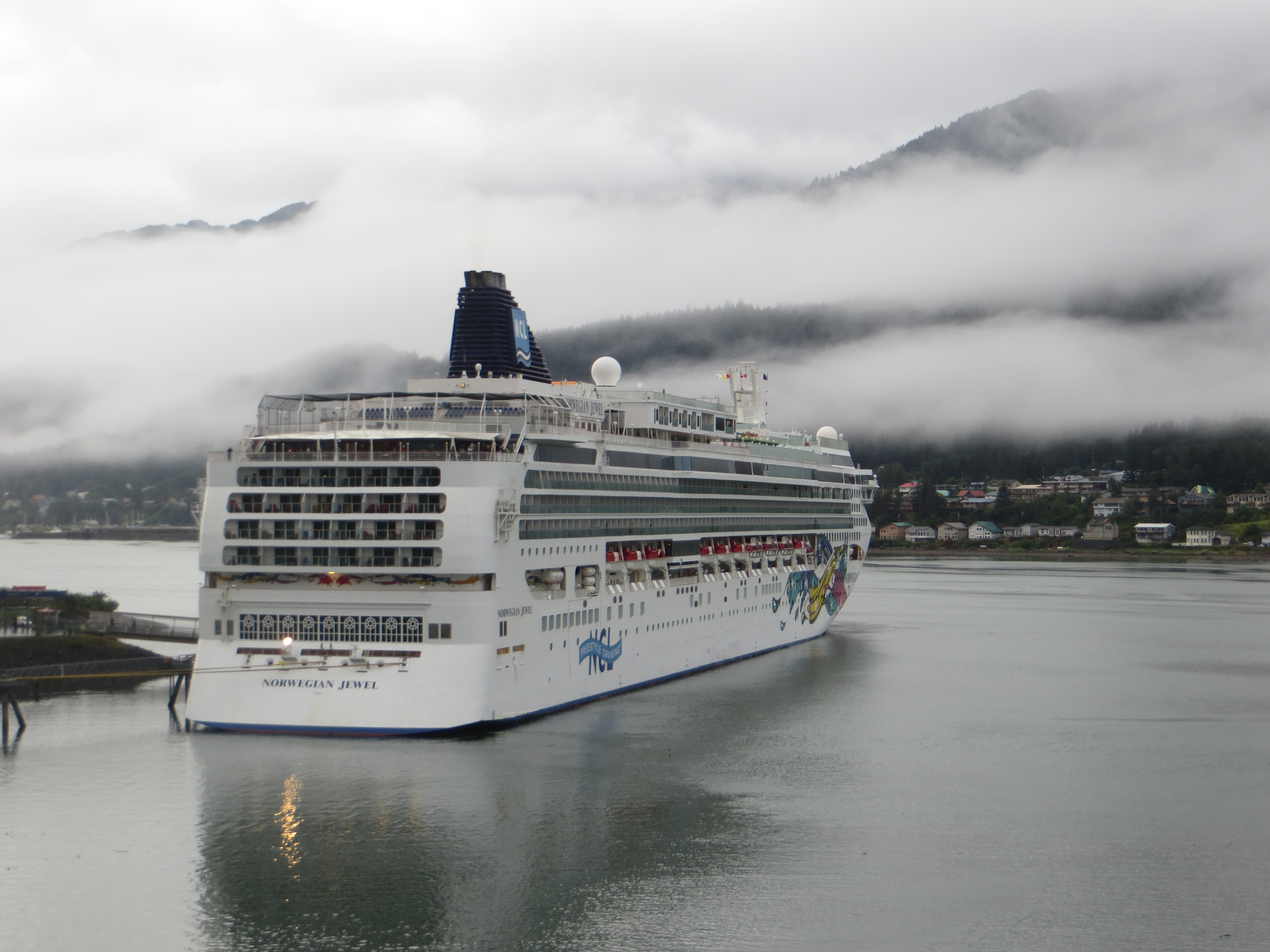 Norwegian Jewel cruise ship in Juneau, Alaska, USA